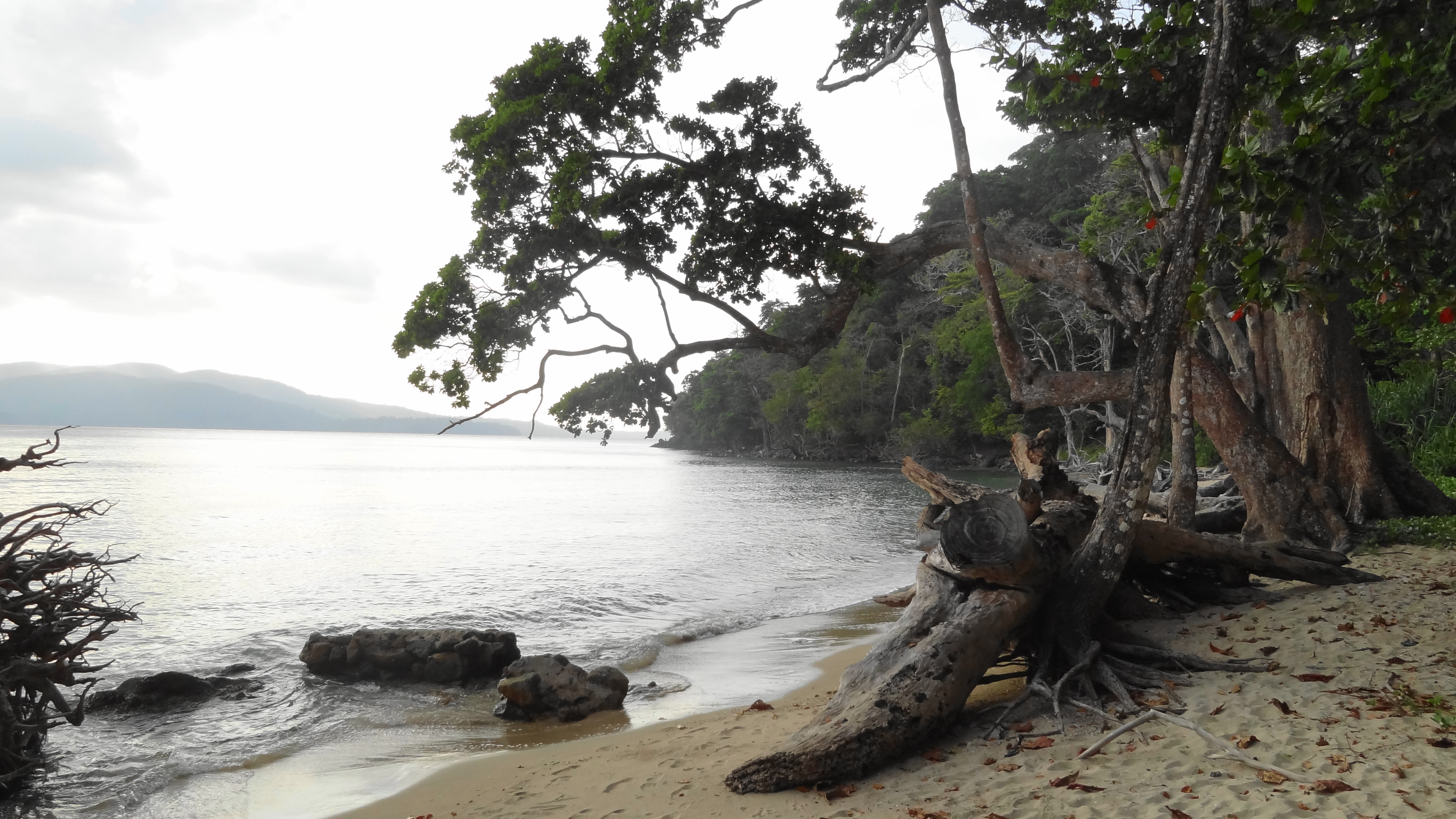 Sunset point beach, Andaman